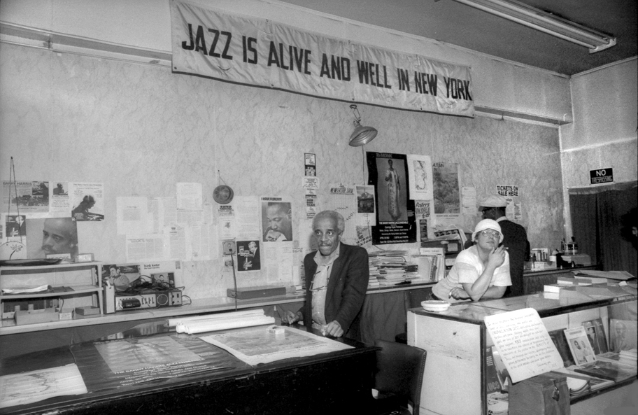 Barry Harris at Barry Harris' Jazz Cultural Theatre, New York NY 7/21/84. Photo by Brian McMillen /